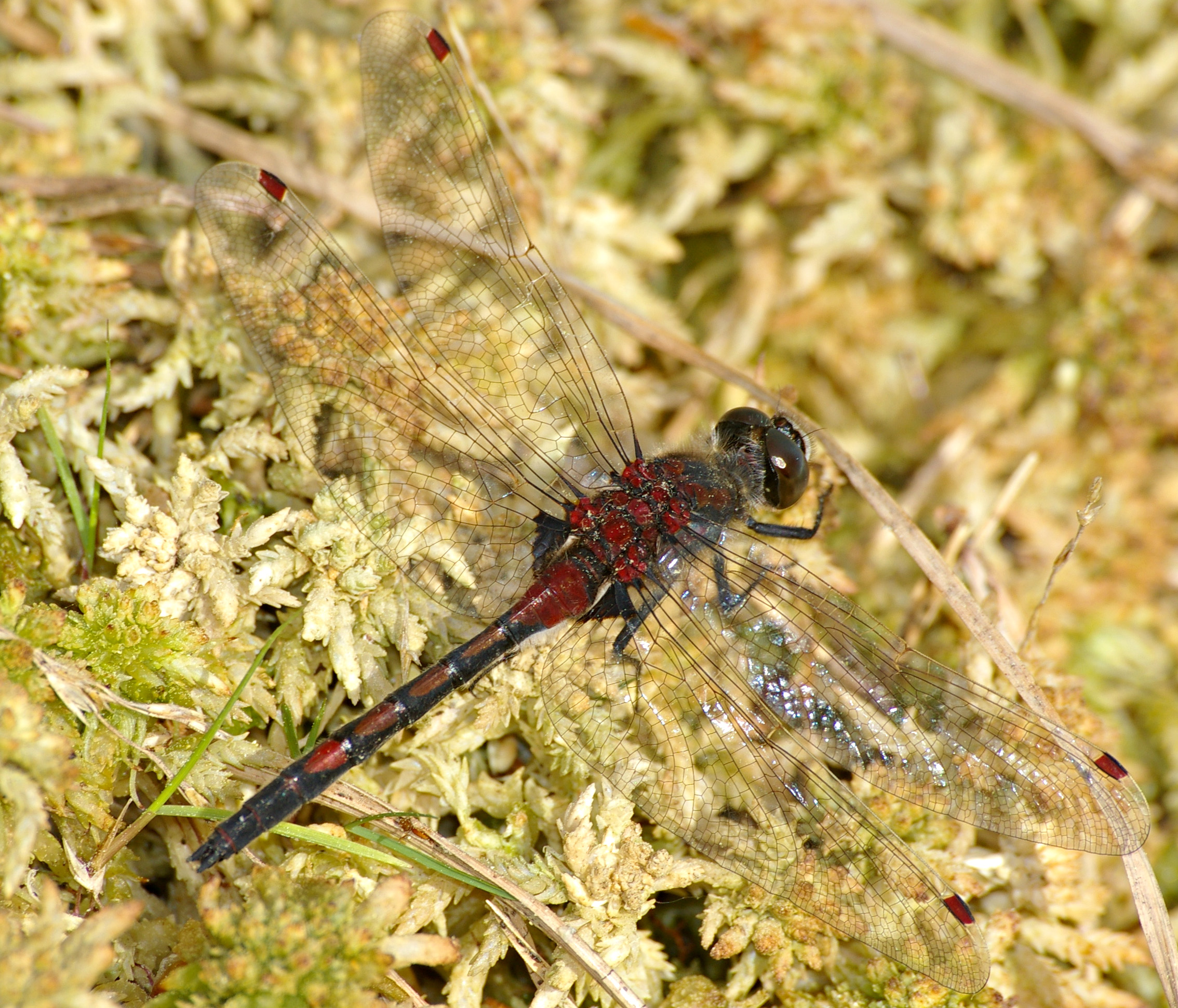 Male specimen of the dragonfly Leucorrhinia rubicunda, sitting on dry sphagnum moss.